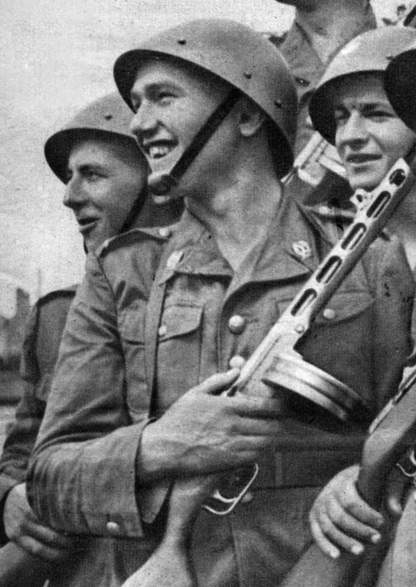 Soldiers of the Polish army, armed with PPSh-41 machine guns